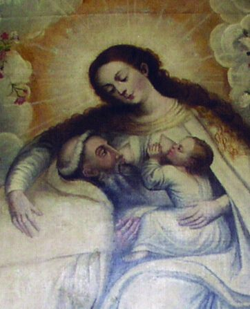 Lactation of Saint Pedro Nolasco (detail), Oil on canvas, 17th century (1663?), Monastry La Merced in Cuzco/Peru